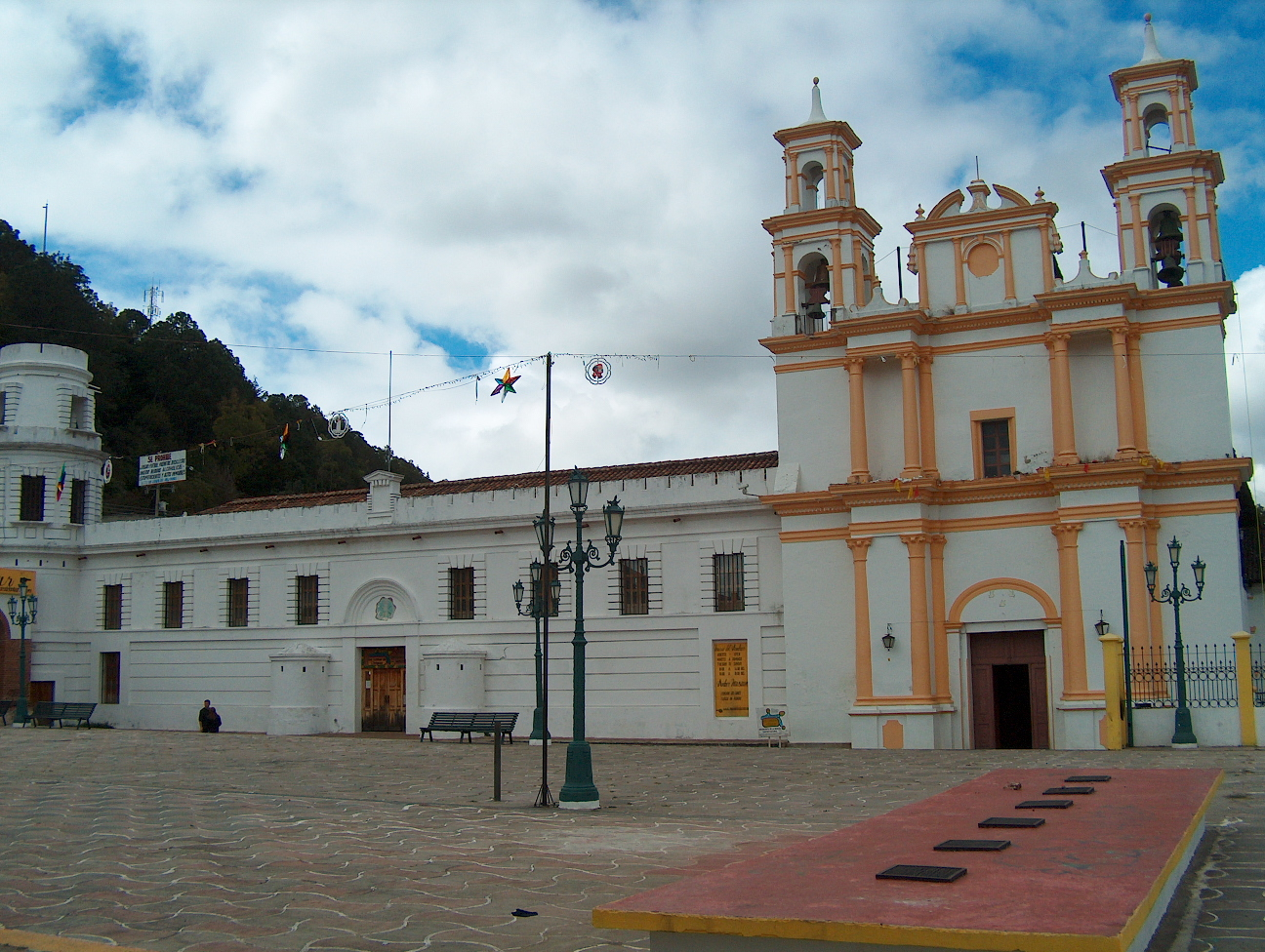 I took this photo and i give to wikicommons. The front entry of the Church of La Merced.